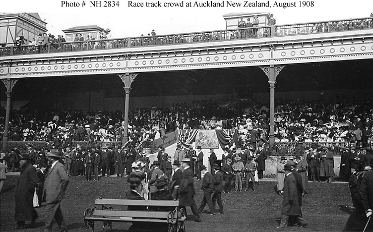 Spectators at Ellerslie Racecourse during a visit by "Great White Fleet" personnel, August 1908.